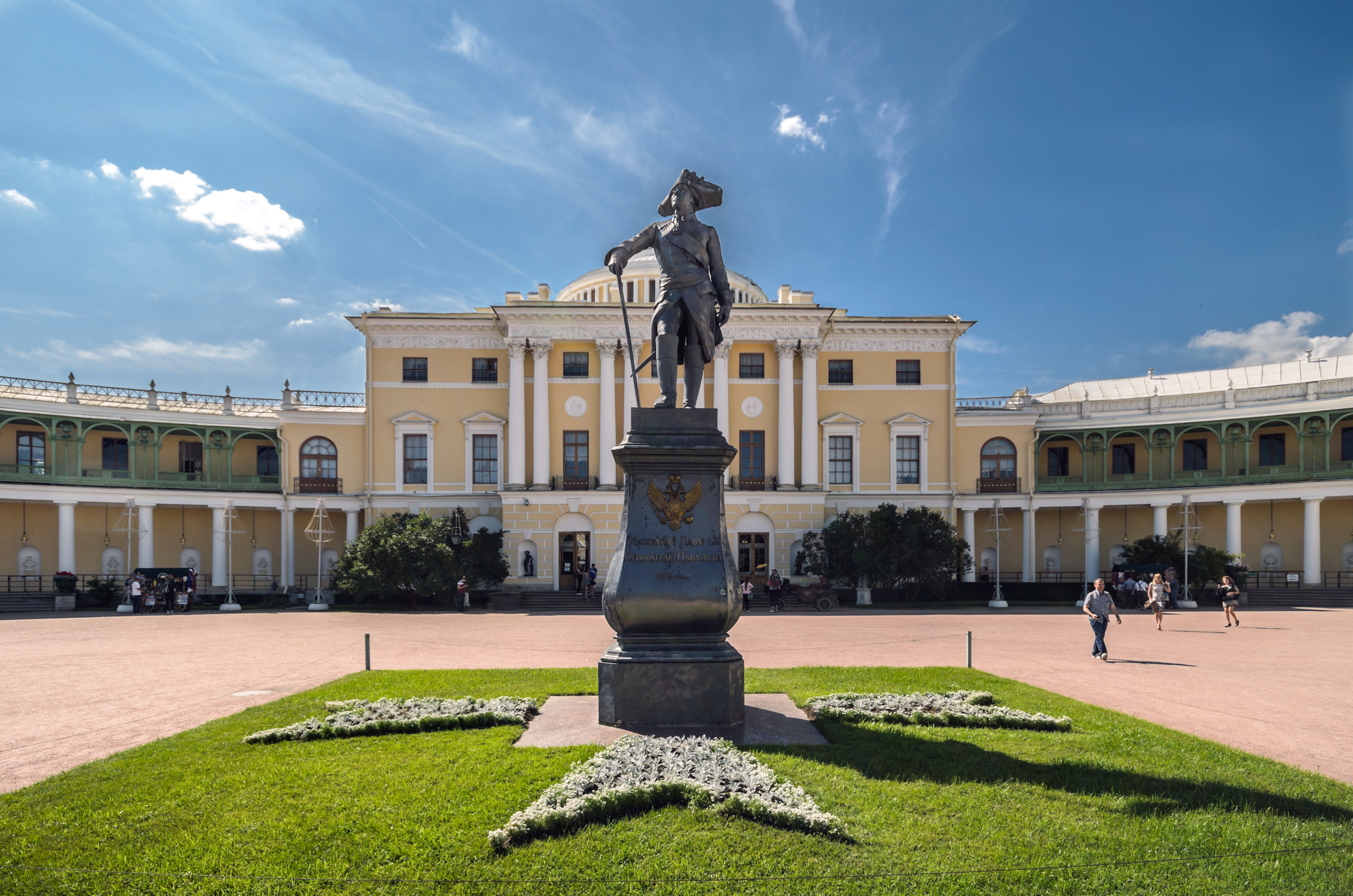 Monument to Paul I in Pavlovsk